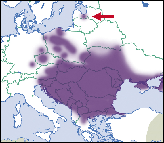 Cepaea vindobonensis (Pfeiffer, 1828). Distributional range in Europe, scientific state of knowledge of 2012. Source description in English. Light colour indicated rare occurrences or regions where the species could eventually be expected to occur. Dark colour indicated relatively reliable occurrences, as well as regions where the species was expected to occur, and where the species was not known to be extremely rare. Dark colour indications were not necessarily based on published records. Species summary in AnimalBase